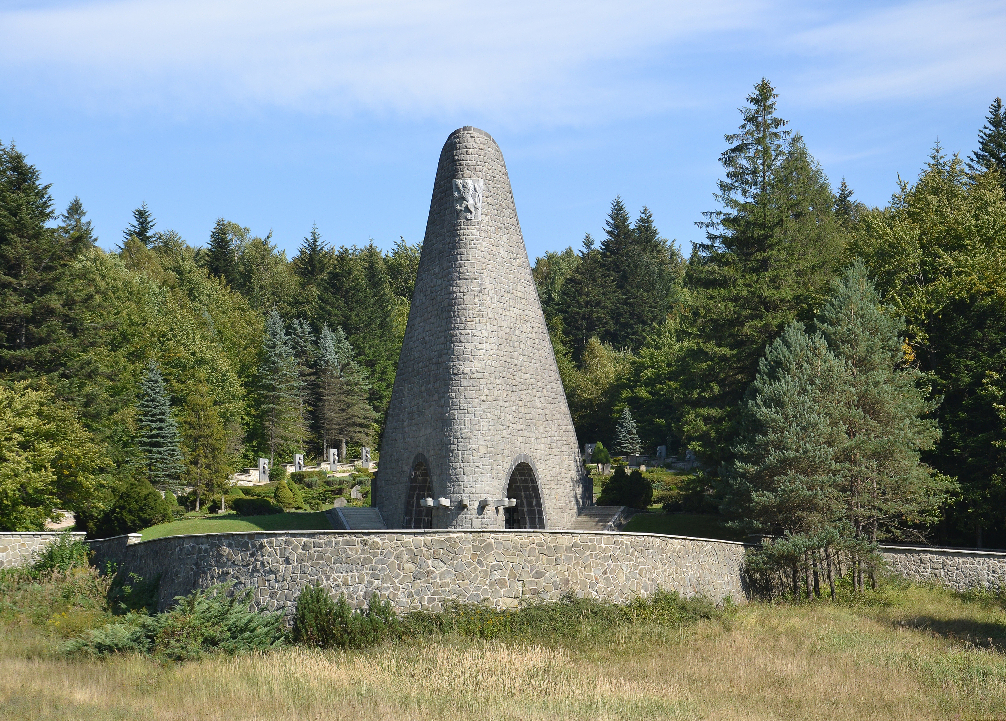 War cemetery in Dukla pass, Slovakia